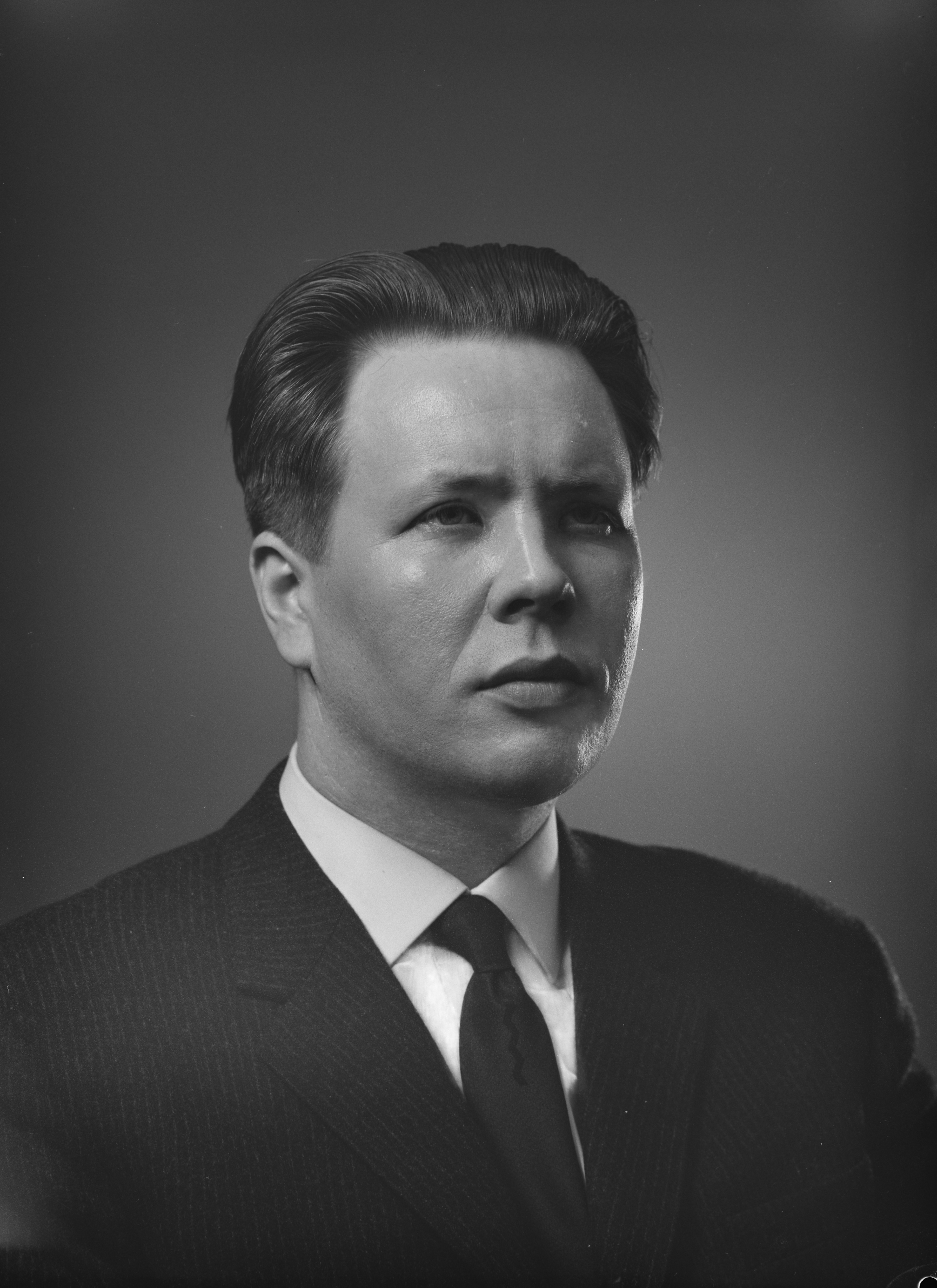 Photograph of the Finnish sociologist and politician Olavi Borg (1935–2020).